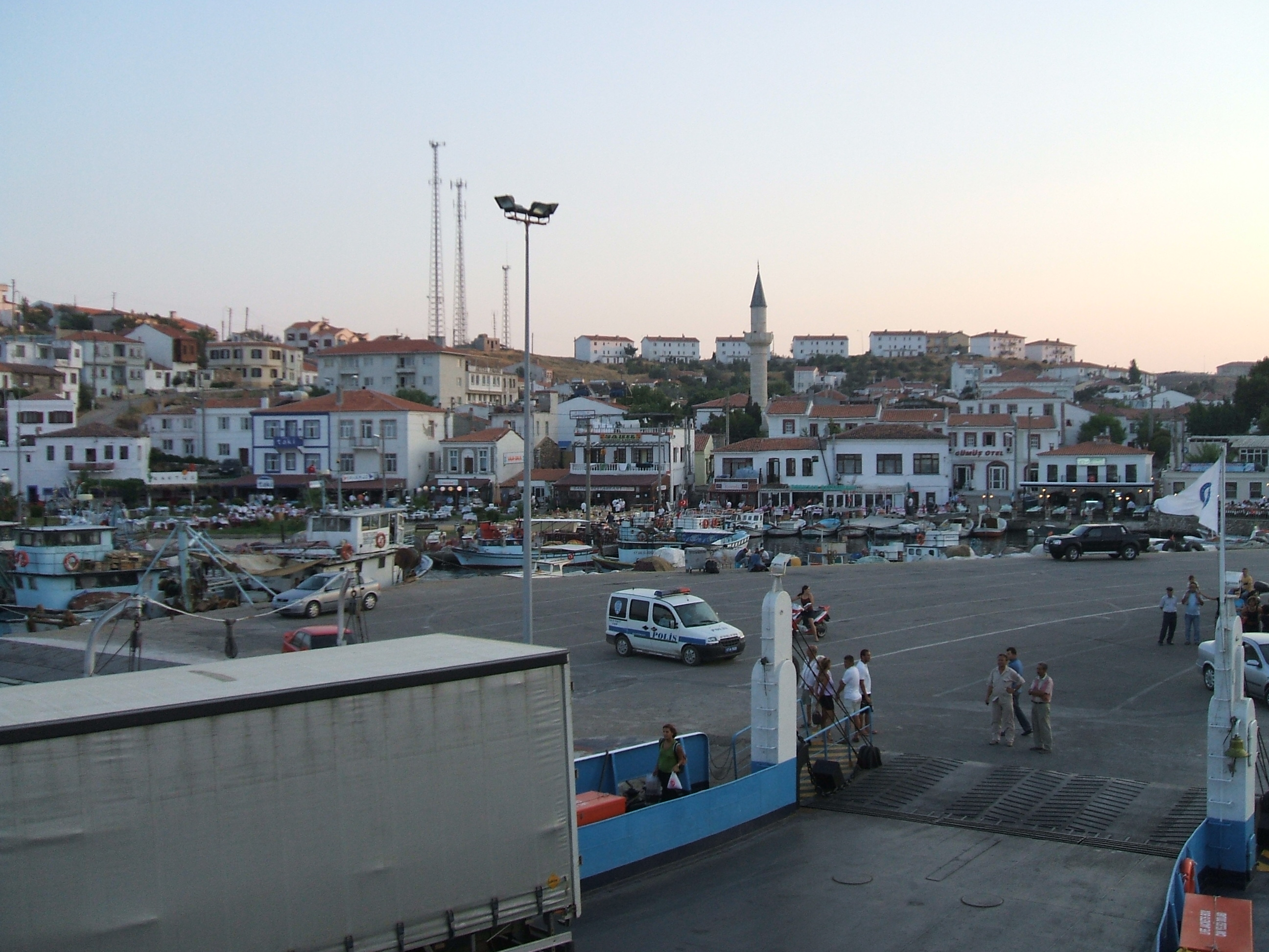 View onto harbor front of Bozcaada